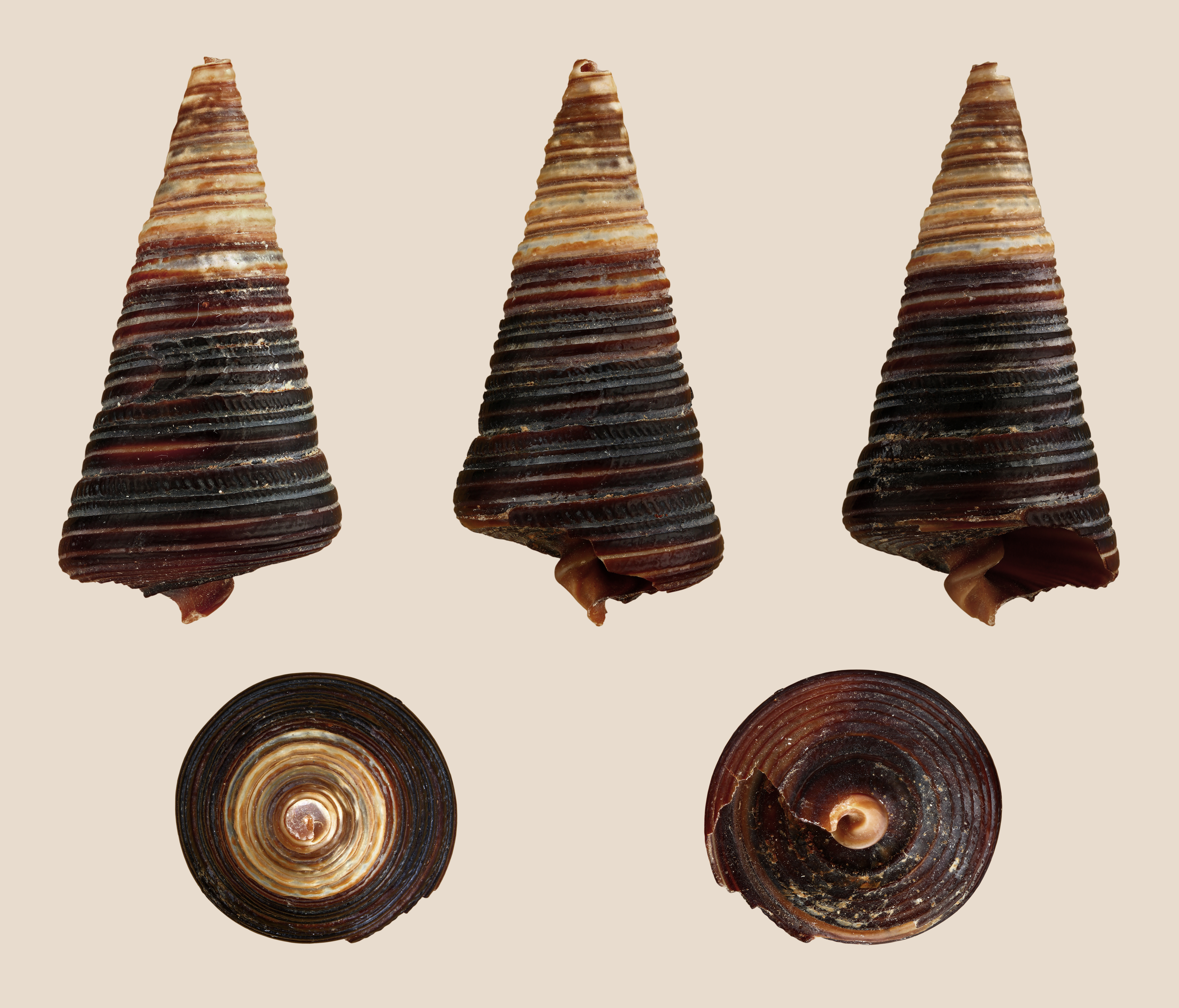 Telescope Shell; Length 4.6 cm; Originating from the Indian Ocean; Shell of own collection, therefore not geocoded. Dorsal, lateral (right side), ventral, back, and front view.